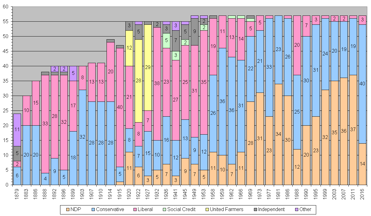 Image created by me from a graph produced in MS Excel, using data from List of Manitoba general elections. Tompw Numbers on graph indicates number of seats won; no number indicates one seat won. Results for Progressive Conservatives are given in the Conservative results, as is the Independent Conservative candidate elected in 1903. Results for the CCF (1936 to 1959), ILP (1922 to 1936), Labour (1920), Socialist (1920) and * Social Democrats (1915 and 1920) have all been included in the NDP results. Results for the Liberal-Progressive party have been placed in the Liberal results Results for the Progressive party (1927) have been placed in the United Farmers results. Results included as "Other": 1945, 1949, 1953: Labour-Progressive 1941: Anti-coalition Conservative 1936: Communist 1922: Independent Labourers 1899: Independent Conservative (2), Liberal-Conservative (3) 1896: Patrons of Industry 1892: Independent Liberal 1879: Liberal-Conservative(7), Independent Conservative (2), Independent Liberal, National